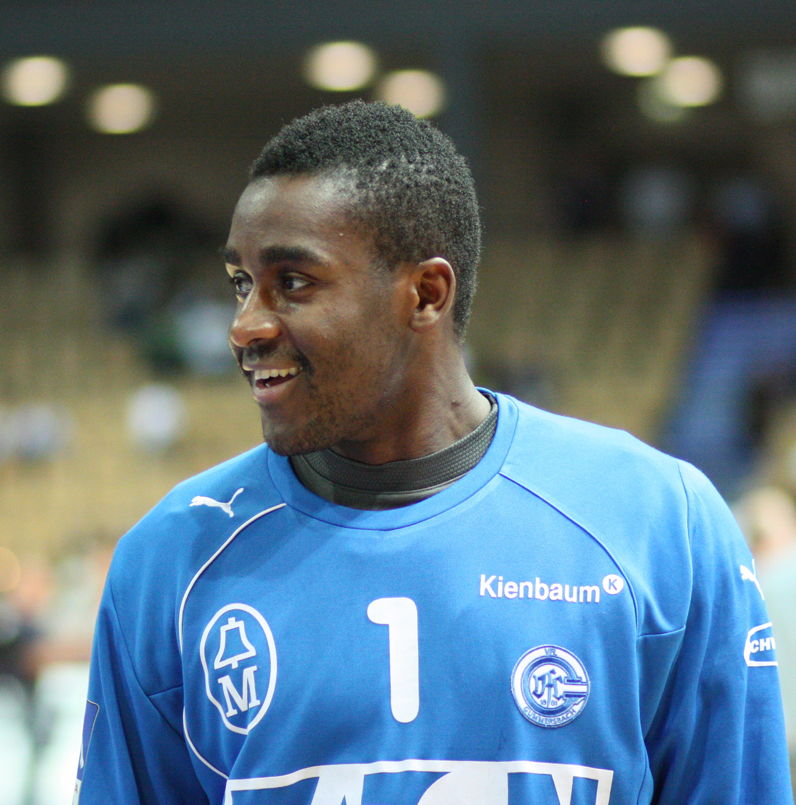 Swedish handball goalkeeper Herdeiro Lucau on 11 September 2009 at the Wetzlar Rittal Arena (Germany)